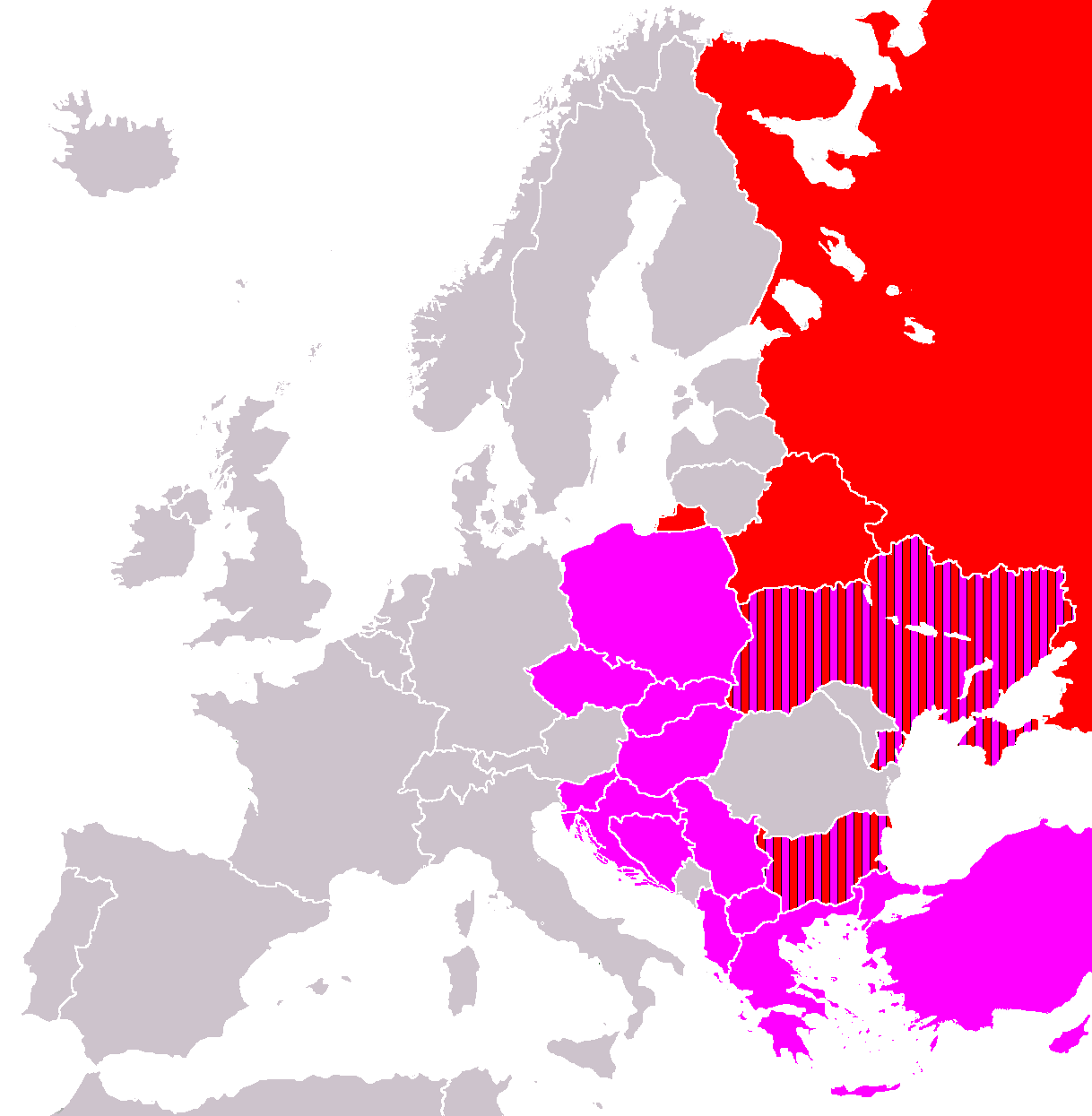 Some of the UN divisions in Europe: The Eastern Europe, Northern and Central Asia Division (red) The East Central and South-East Europe Division (pink)